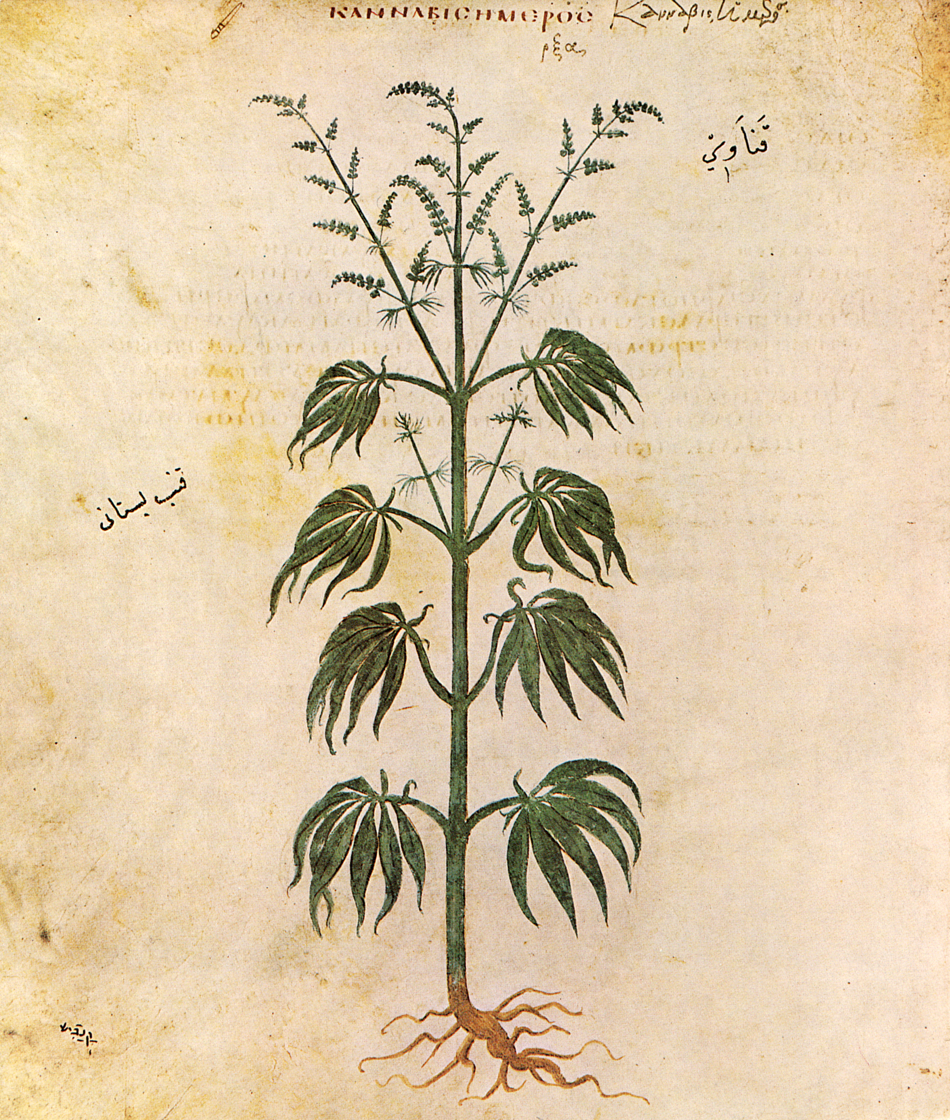 Illustration from the Vienna Dioscurides. Arabic words at left appear to be qinnab bustani قنب بستاني or "garden hemp"